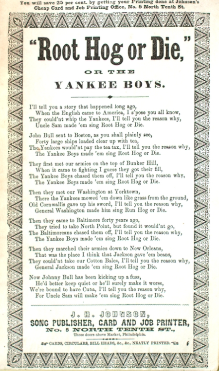 Broadside